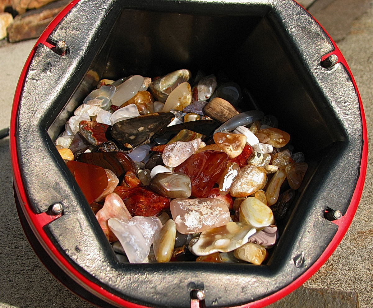 Tumble-polished agate and jasper glisten inside a 15-pound rock tumbler barrel.